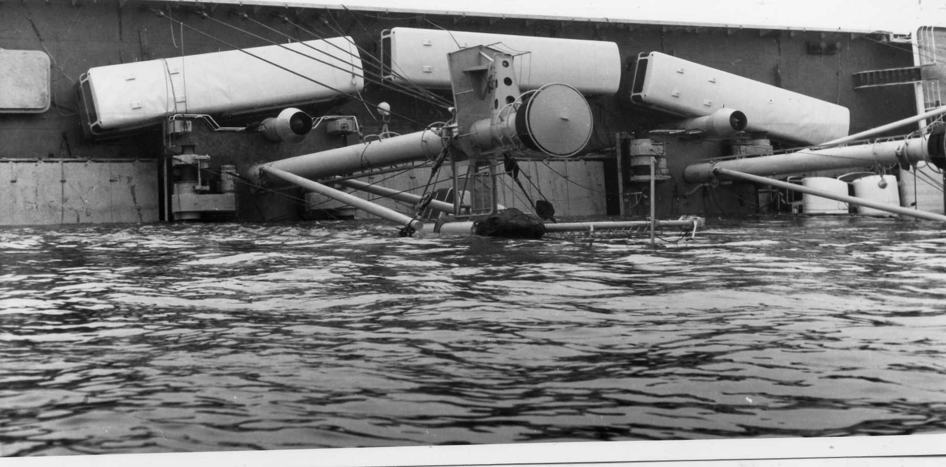 Photos (need re-scanning) of the wrecked MV Magdeburg of the GDR in the Thames. Purchased from Germany, with the stamp of a photographic studio (since disappeared) in Gravesend, Kent. These may have been commissioned by the GDR authorities and I think they ended up in the naval academy in Warnemuende. They have order numbers on the back. On the deck may be seen Leyland Tiger Worldmasters bound for Havana. Photographer was E.John Wells Ltd of 15 Parrock Street, Gravesend. Both premises and firm have vanished. More information about the event and its repercussions is found under my original 1965 photo, with my Instamatic 50 camera